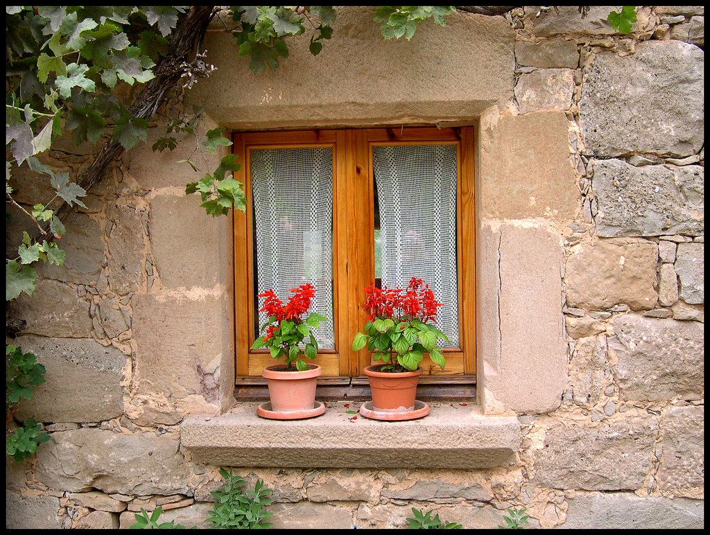 Window in Spain.